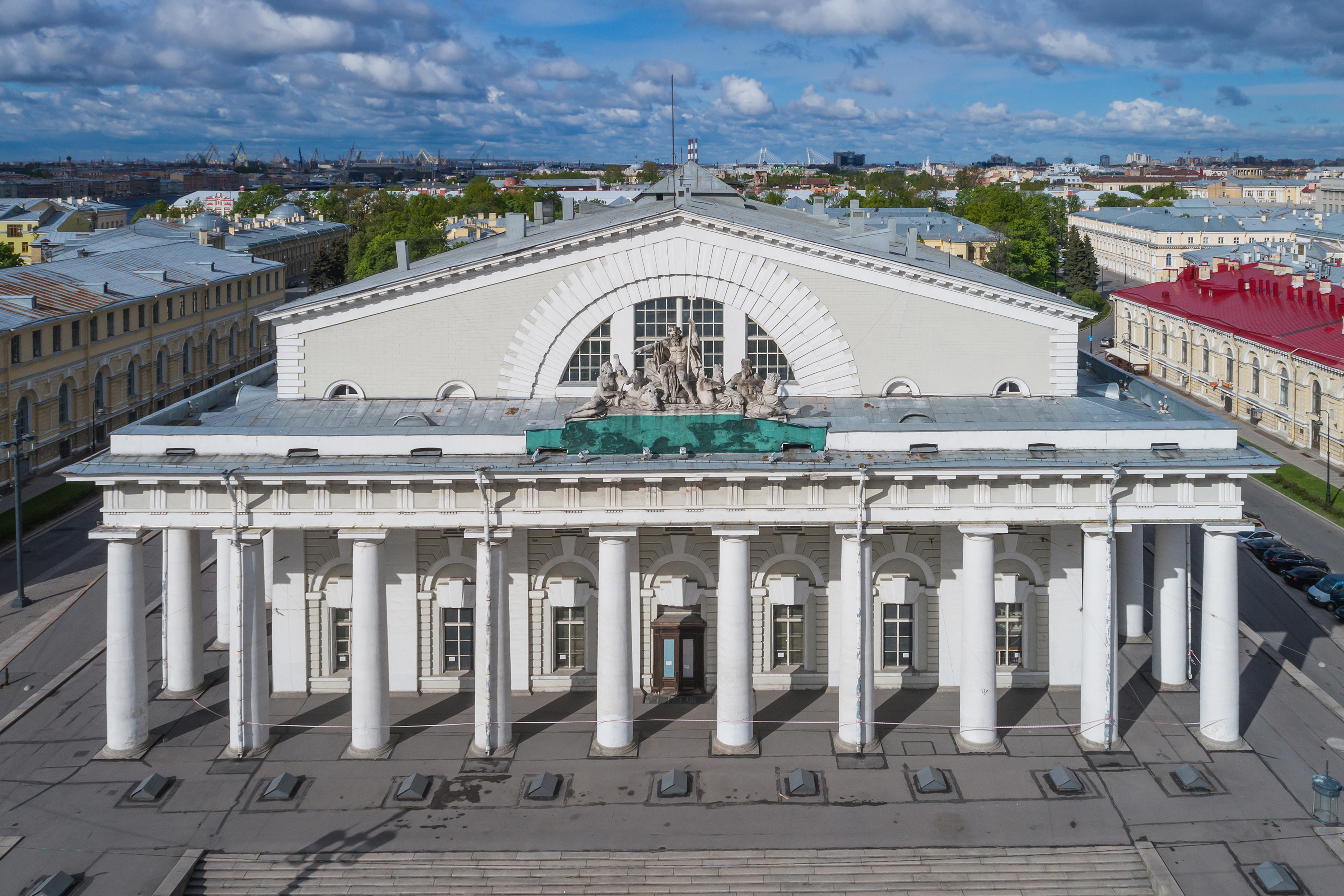 Aerial photo of the Vasilievsky Island Spit in Saint Petersburg (Russia).